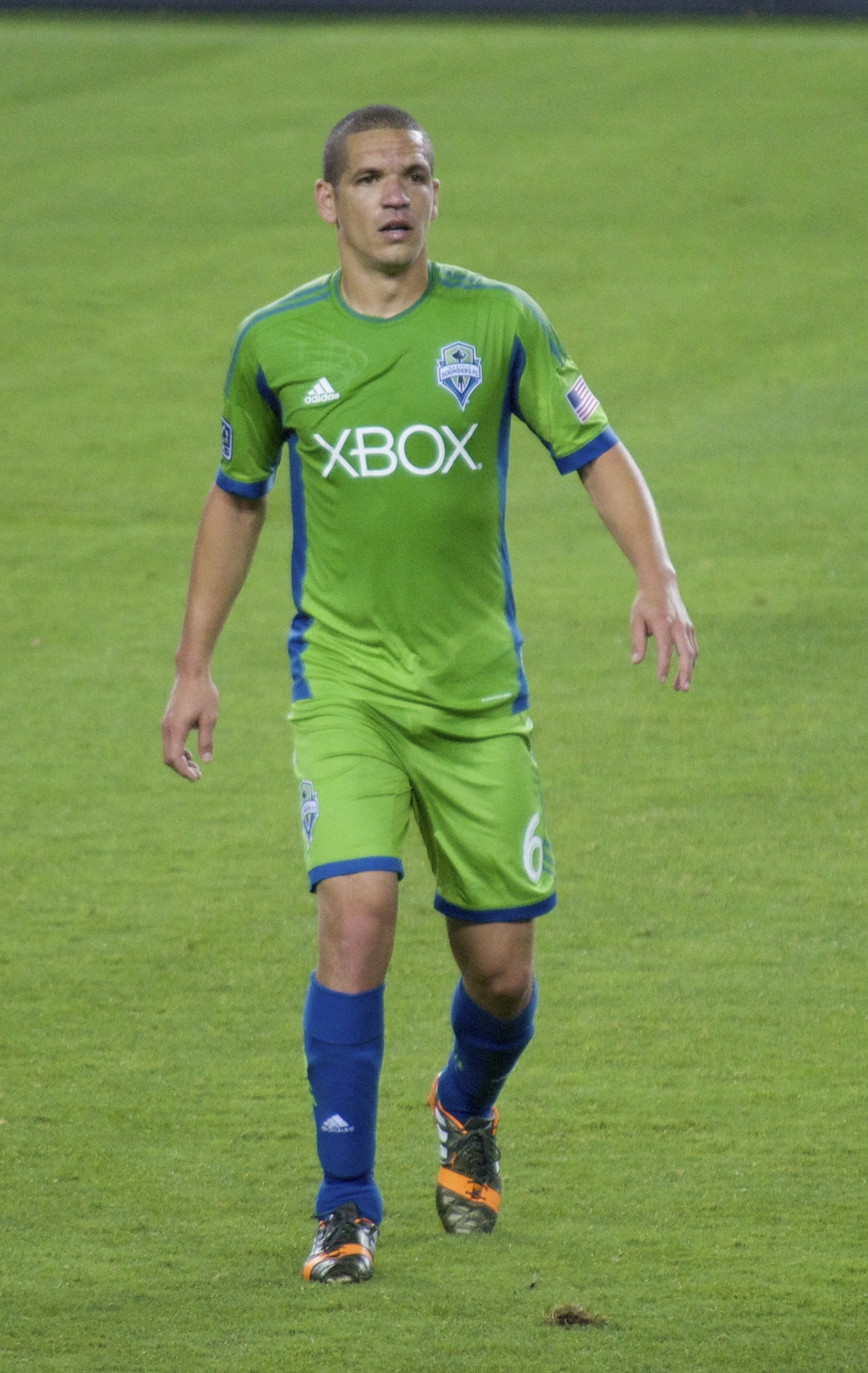 Osvaldo Alonso, Levi Stadium inaugural game, Seattle Sounders vs San Jose Earthquakes, Santa Clara, California